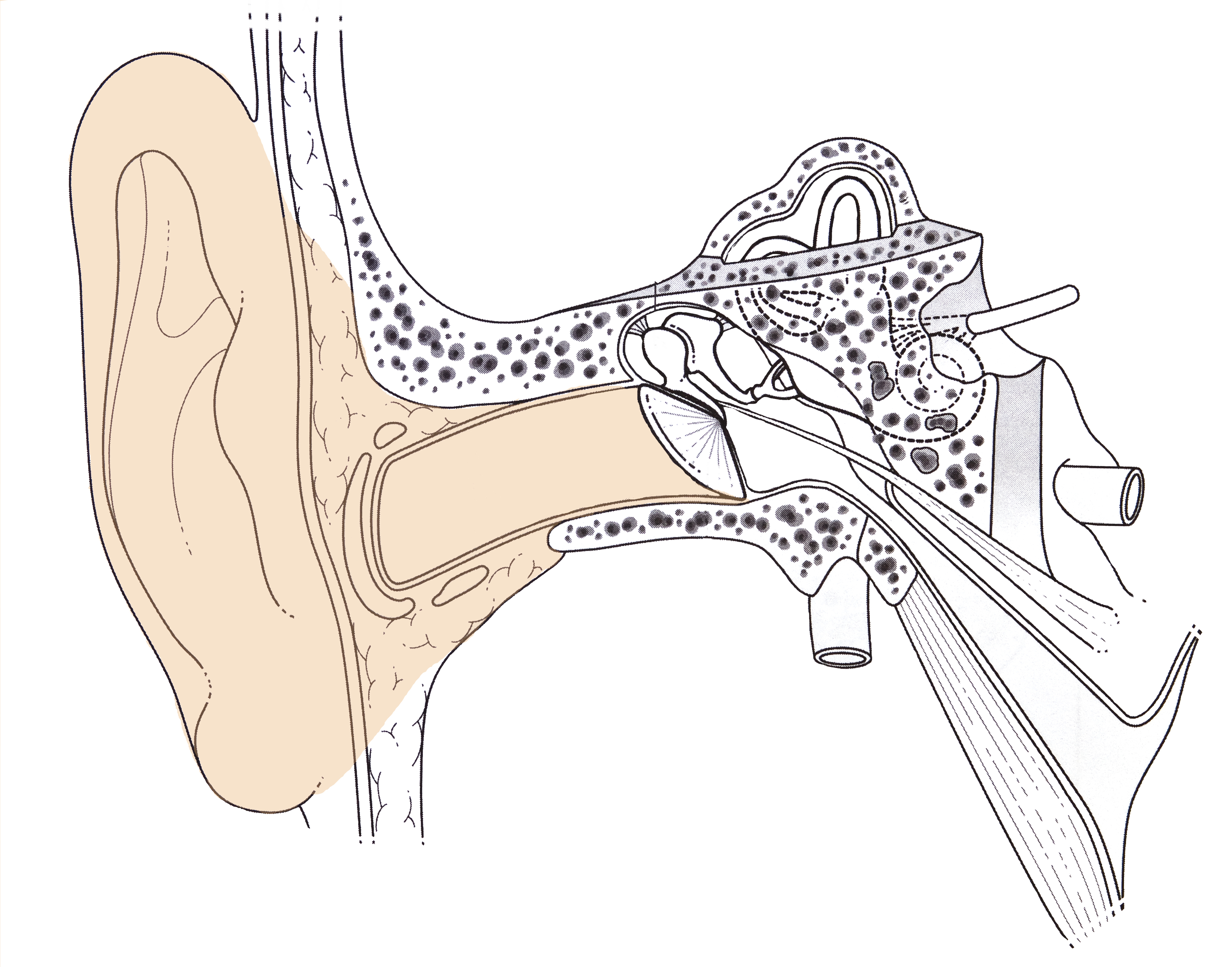 Outer ear - schema